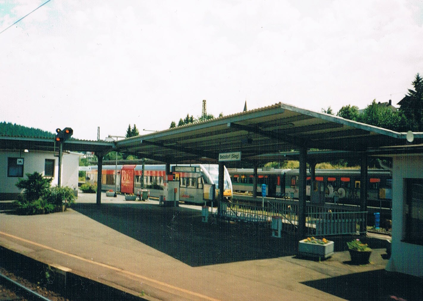 Betzdorf train station.